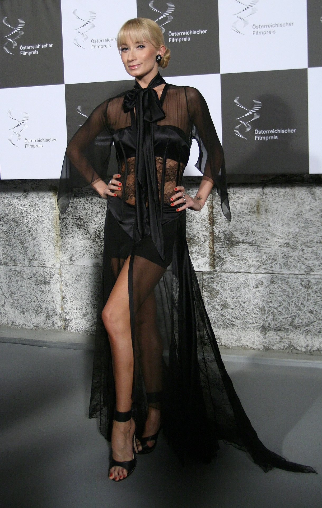 Karina Sarkissova, Austrian Film Awards 2012 (Vienna).